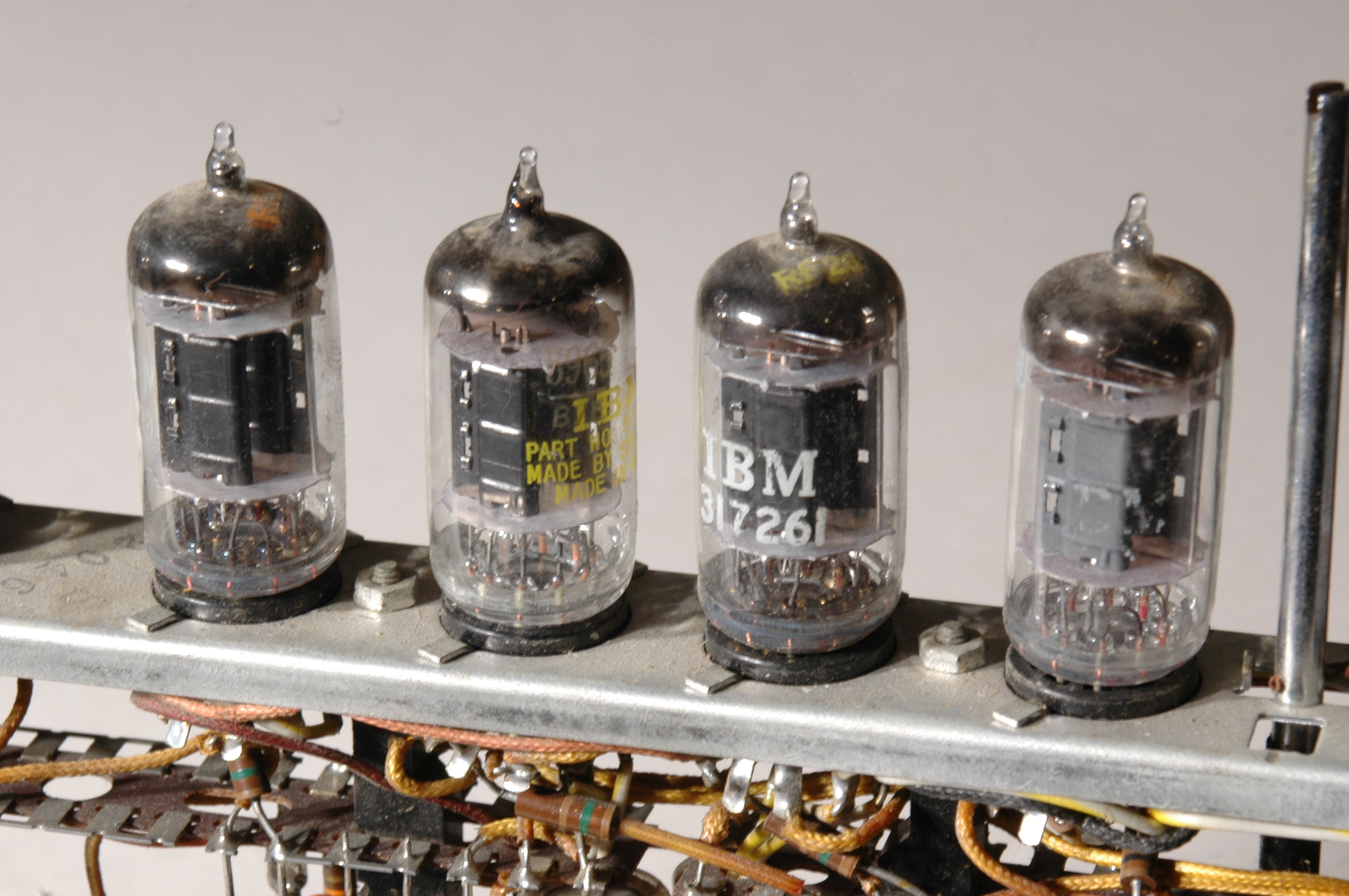 Tube module from an IBM mainframe. From the collection of the RCS/RI.